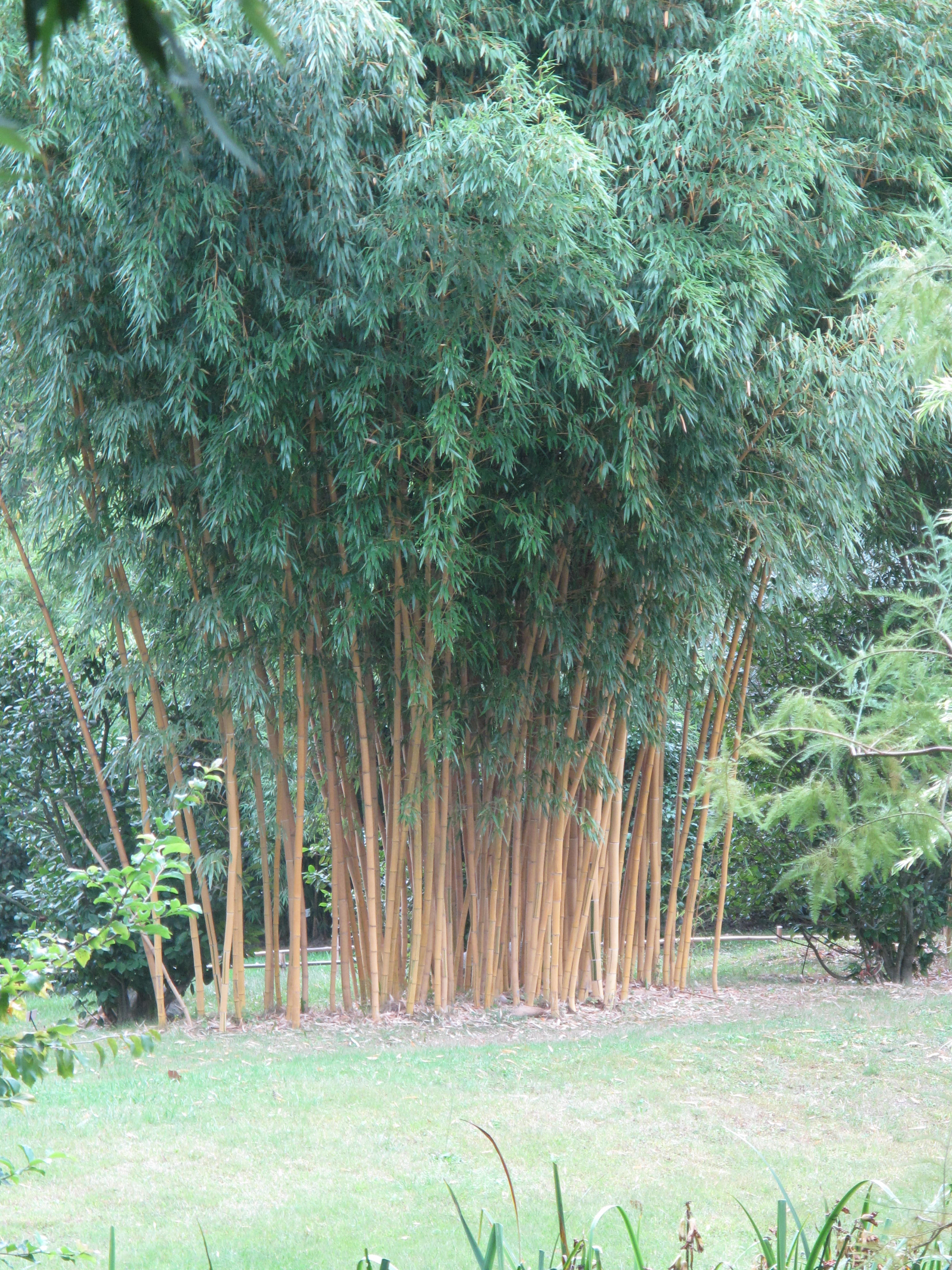 Phyllostachys bambusoides in the bambouseraie de Prafrance, Gard, France.